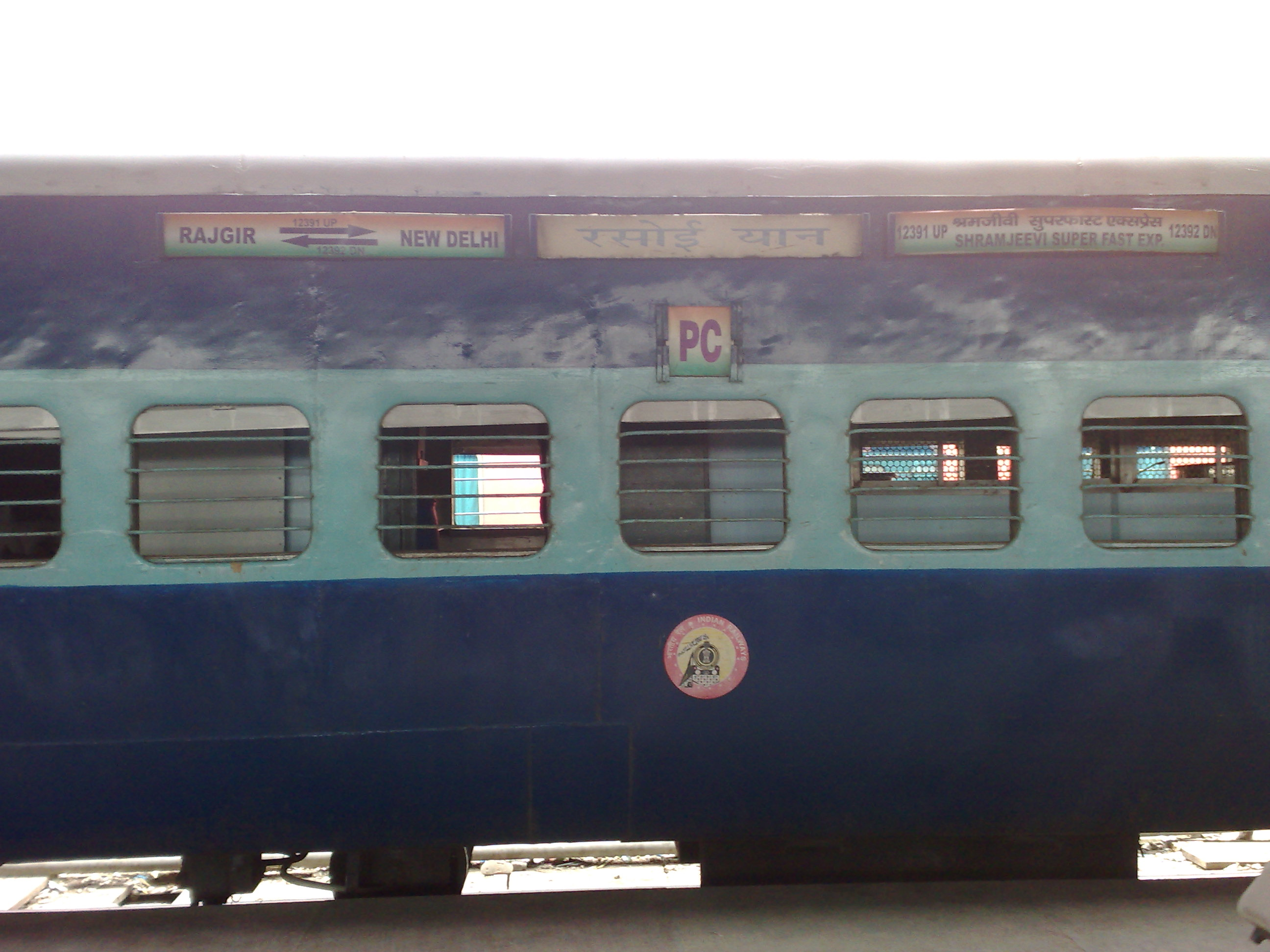 Shramjeevi Express - Pantry Car Coach